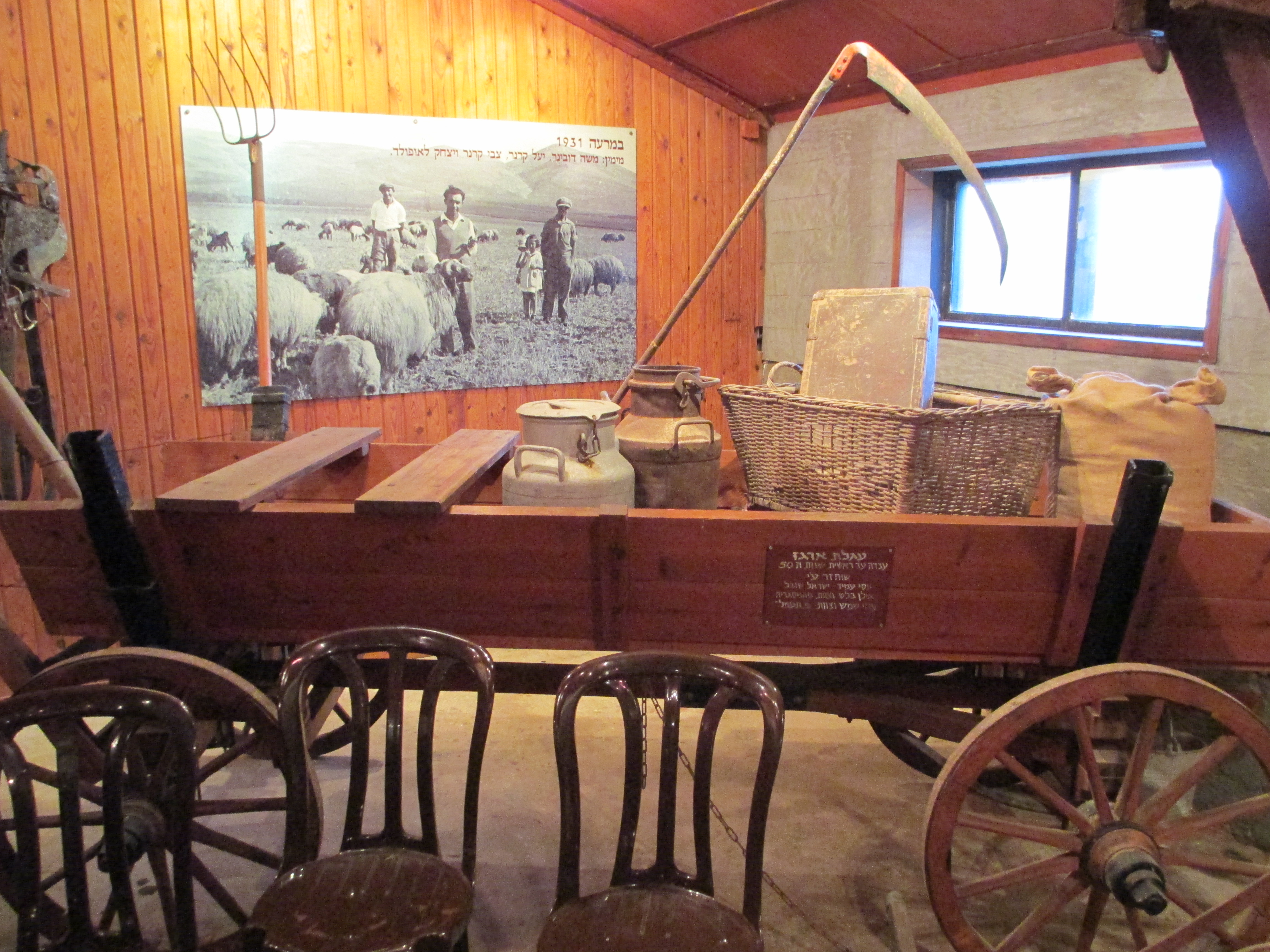 Little Mizra Museum